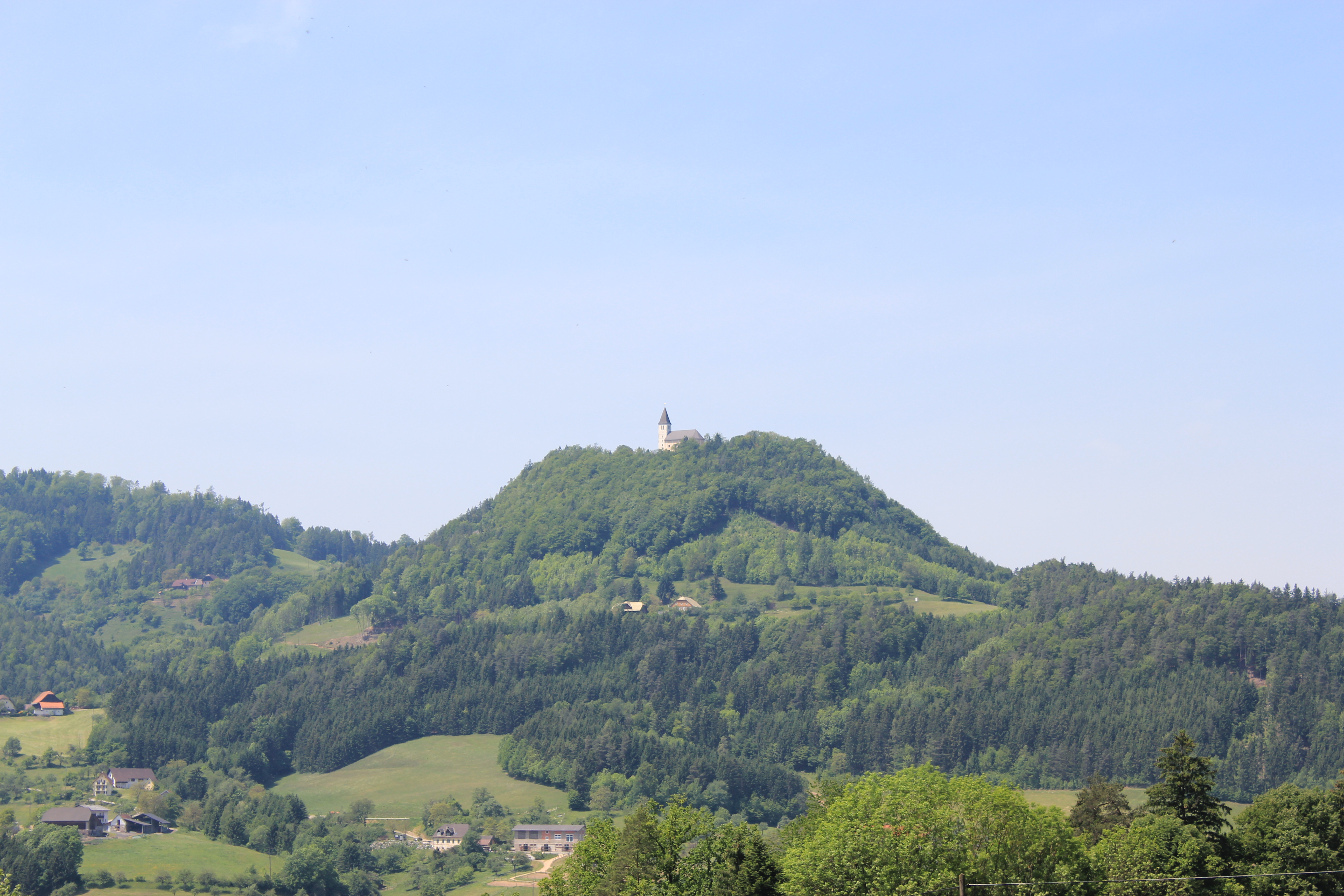 Josefsberg-church in Sankt Paul im Lavanttal